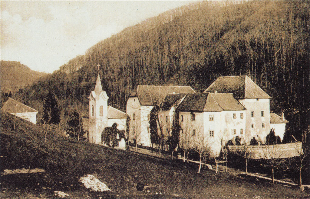 Postcard of Medija Castle